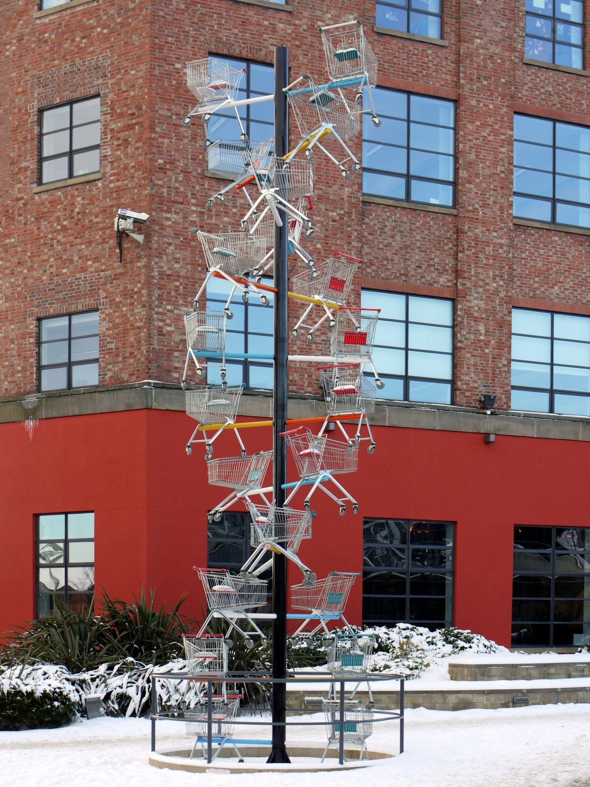 Completely off her trolley. This public art work by Abigail Fallis entitled 'DNA DL90' has temporarily replaced 729681 in its position in Central Square off Forth Street. 'Vulcan' was removed in August 2009 to go on tour along with other works by Sir Eduardo Paolozzi. The sculpture 'DNA DL90' was commissioned by the Somerfield supermarket chain showing their support for muscular dystrophy research. Dr James Watson (co-discoverer of DNA and Nobel prize winner) was guest of honour at the official opening of the trolley double-helix on 7 October 2009. The artist is making the point that consumerism is inextricably linked to our genetic make-up and fits with her other work in the use of humour, recycled materials and concerns with current over-consumption. There is another DNA sculpture nearby 1158278 in Times Square, outside the International Centre for Life 1158672 reflecting its important role in life science and genetic research.